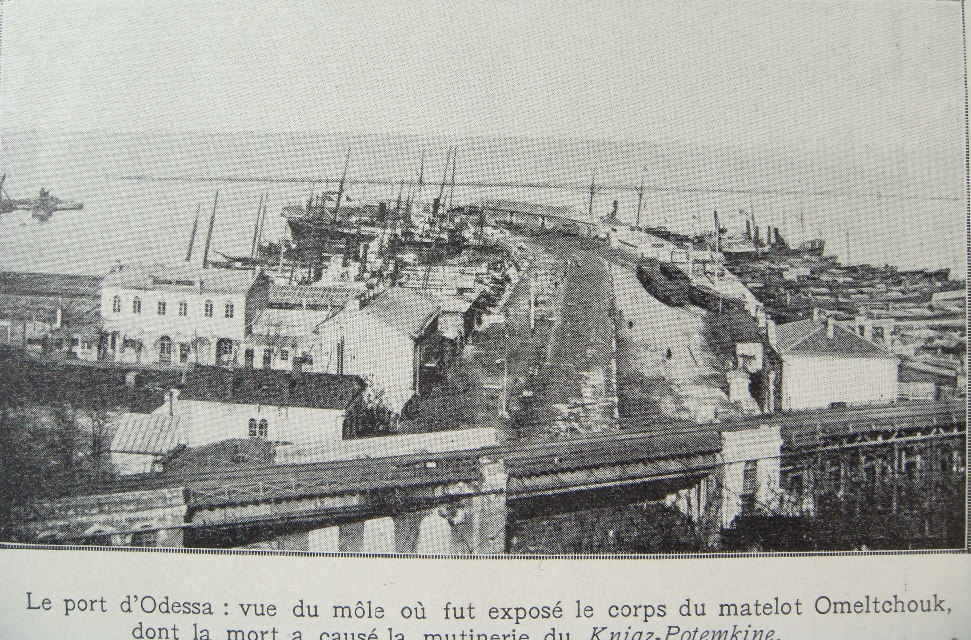 Potemkin mutiny. View of Odessa port's New Mole at which corps of killed sailor Vakulenchuk was excibited